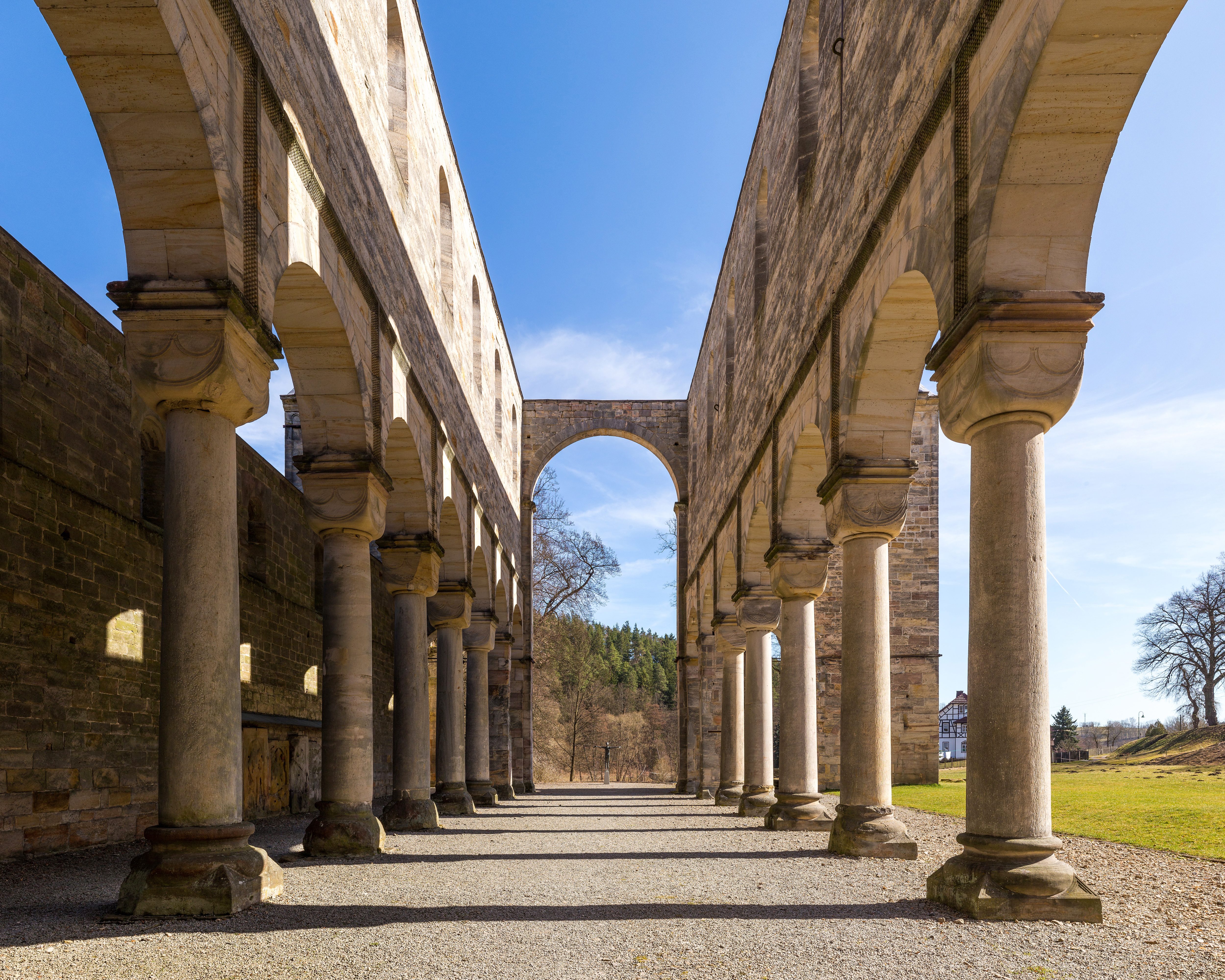 Ruin of the abbey church of Paulinzella abbey in Thuringia, Germany. View from west to east. The church was built from 1106 on, today there are only ruins left. It's one of the most important romanesque buildings in Germany.